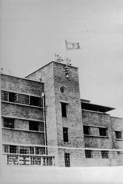 Democracy Flag on the Democracy Square, Peking University